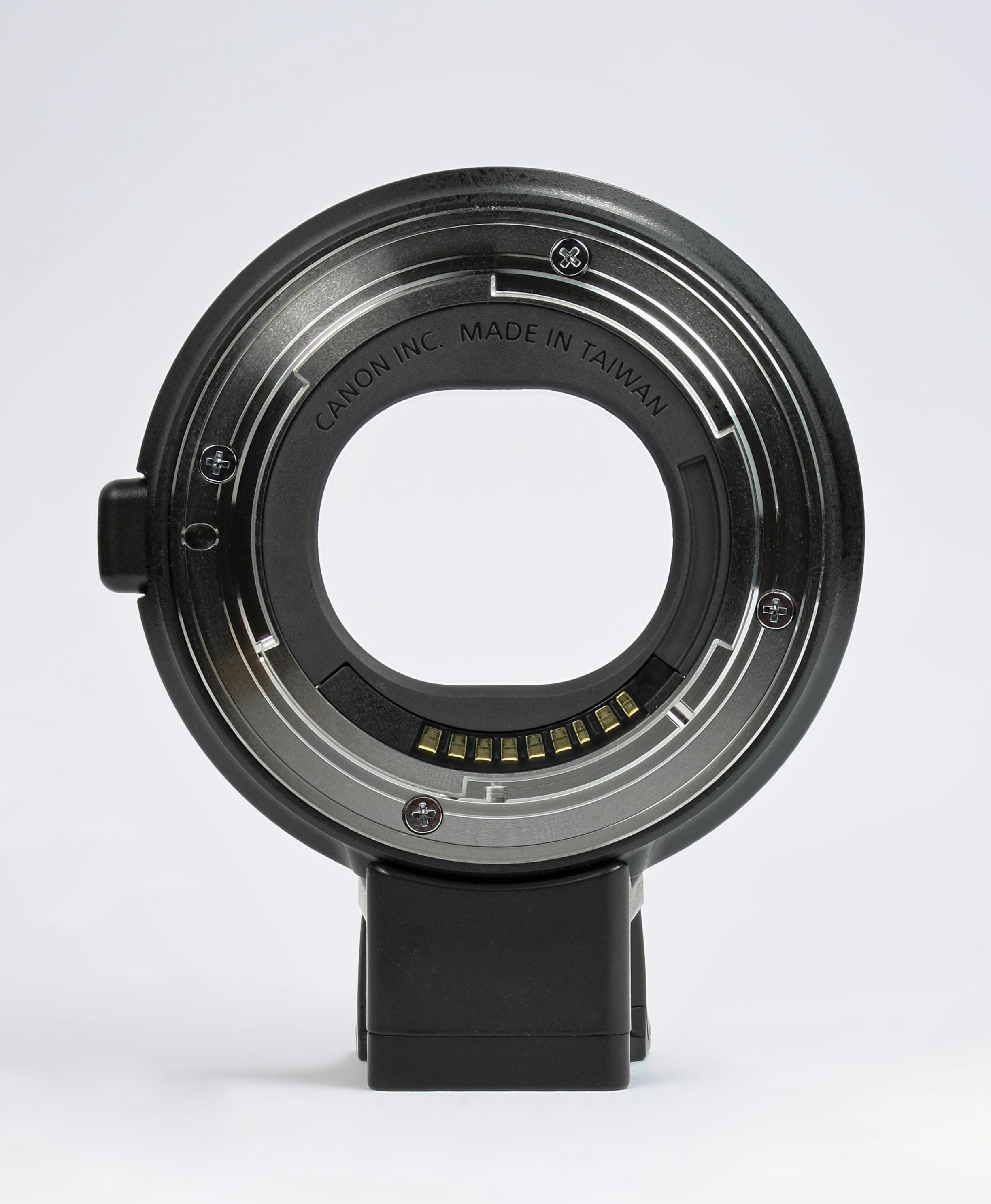 The EF-M mount of a lens mount adapter by Canon for using EF/EF-S) lenses in an EF-M lens mount